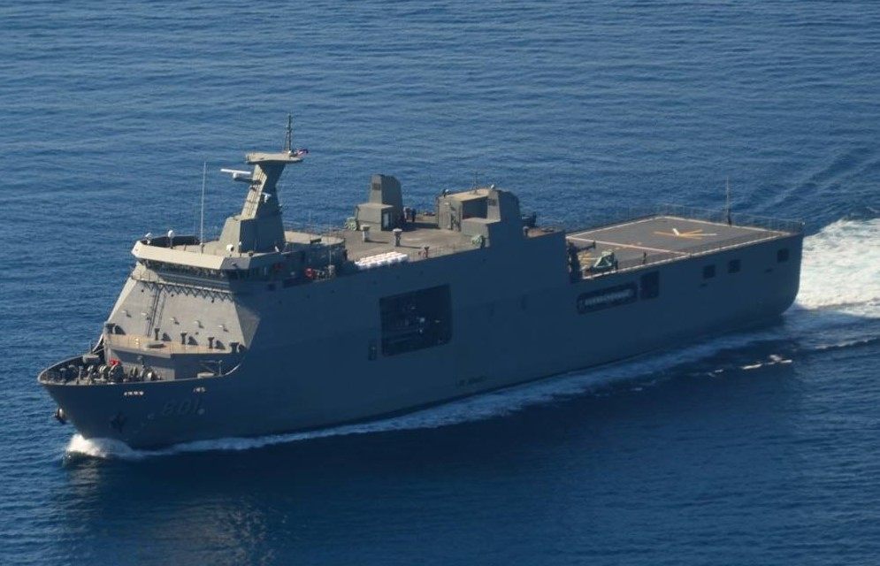 BRP Tarlac (LD-601) during its delivery cruise to Manila from Indonesia